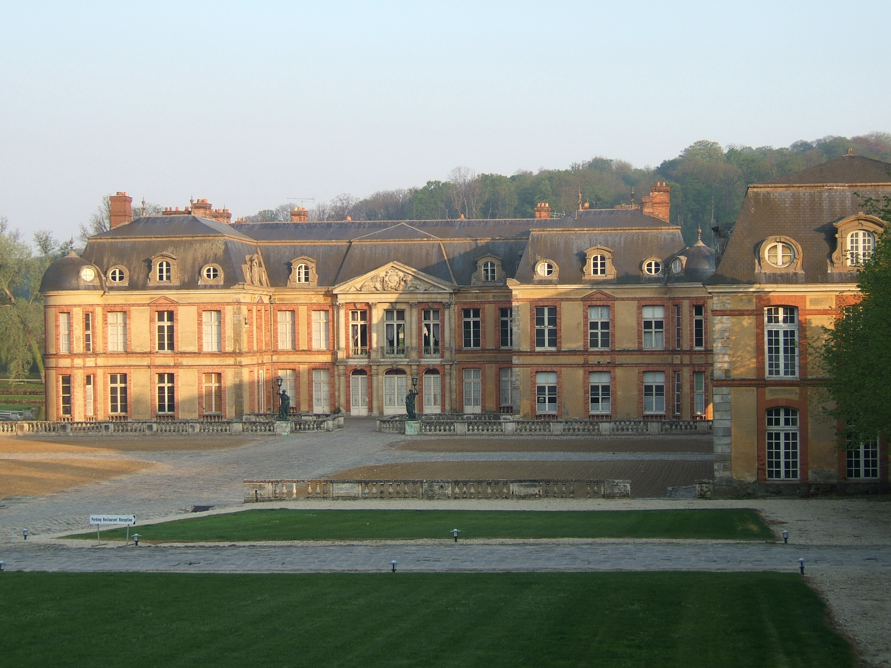 Château de Dampierre, Dampierre-en-Yvelines, France.